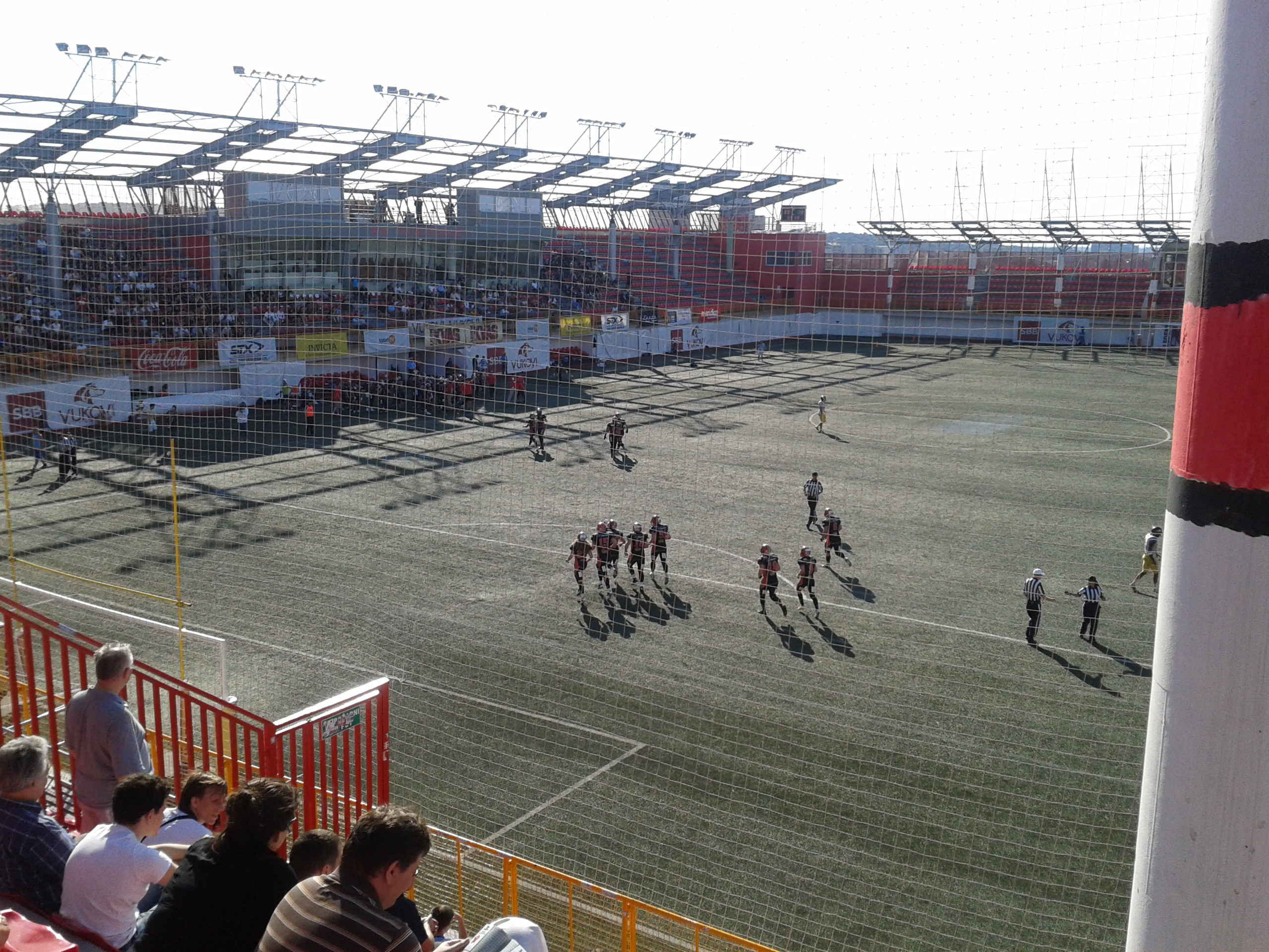 IFAF Champions League 2015 Final, Vukovi Beograd - Carlstad Crusaders